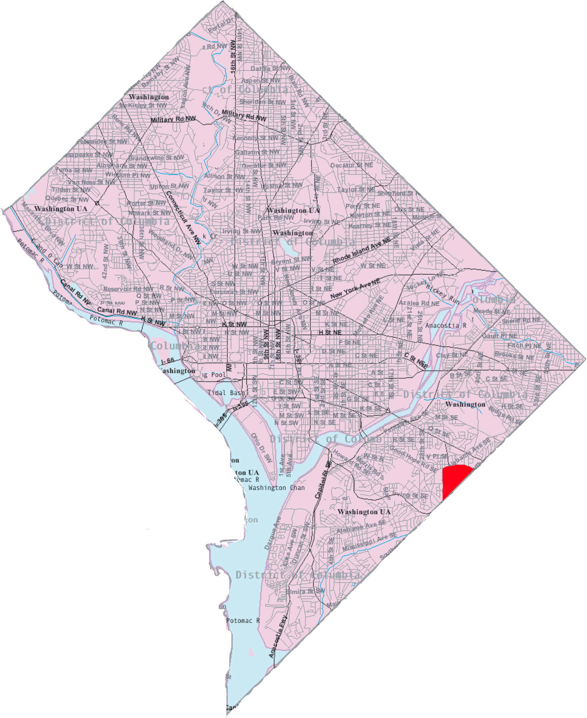 This image is a modified version of a self-generated reference map from the U.S. Census Bureau's American Factfinder at by Wikipedia user Msclguru.